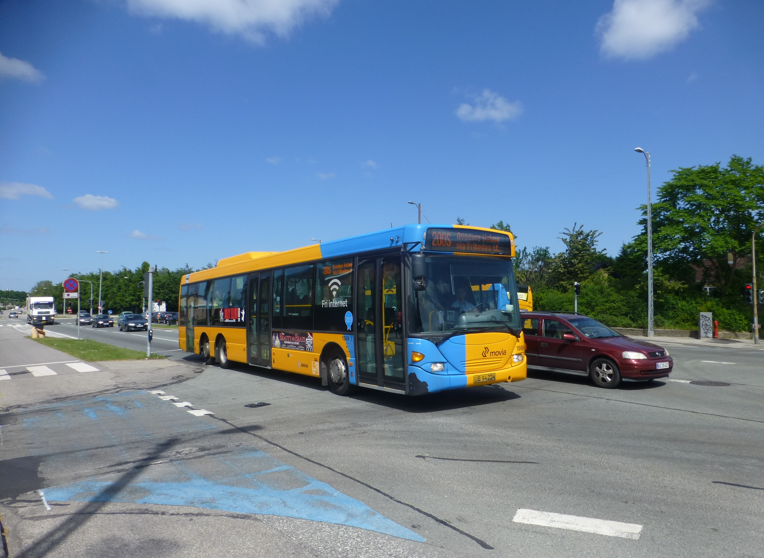 Movia bus line 200S on Tårnvej at Nørregårdsvej in Rødovre in Copenhagen.